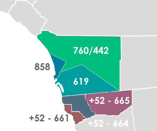 Area codes of the San Diego–Tijuana metropolitan area.